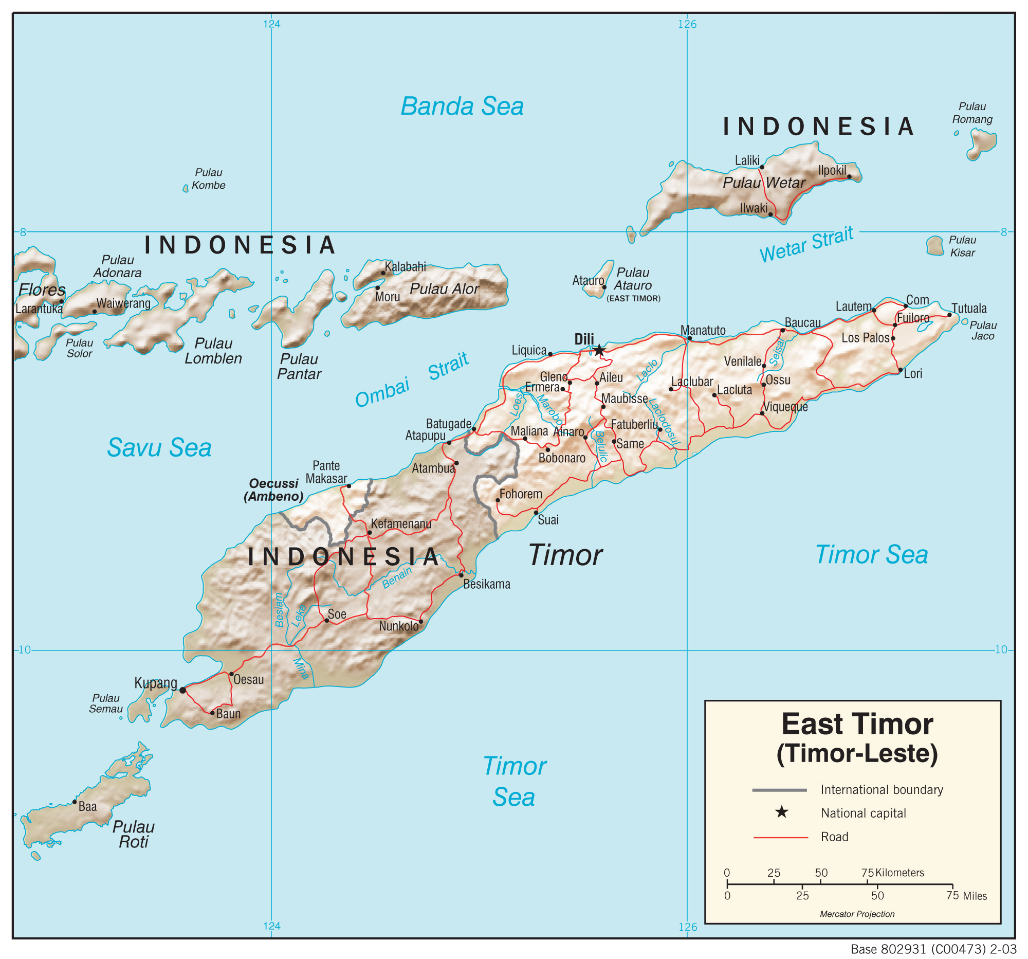 Topographic map of East Timor (shaded relief), 2003.